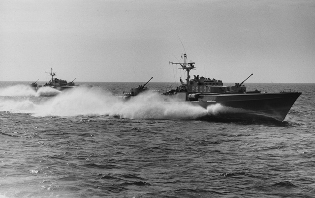 Fast attack craft Weihe (in front) and a secont Boat of Type 140 Jaguar class. The type of boats is an evolution of the German torpedo boats (E boats) of World War II. Sa'ar 3 class ("Cherbourg") is a class of missile boats built in Cherbourg, France at the Amiot Shipyard based on Israeli Navy modification of the German Navy's Jaguar class fast attack craft. "5.SG" means fast patrol boat squadron 5, elster and dommel are boats from these squadron.